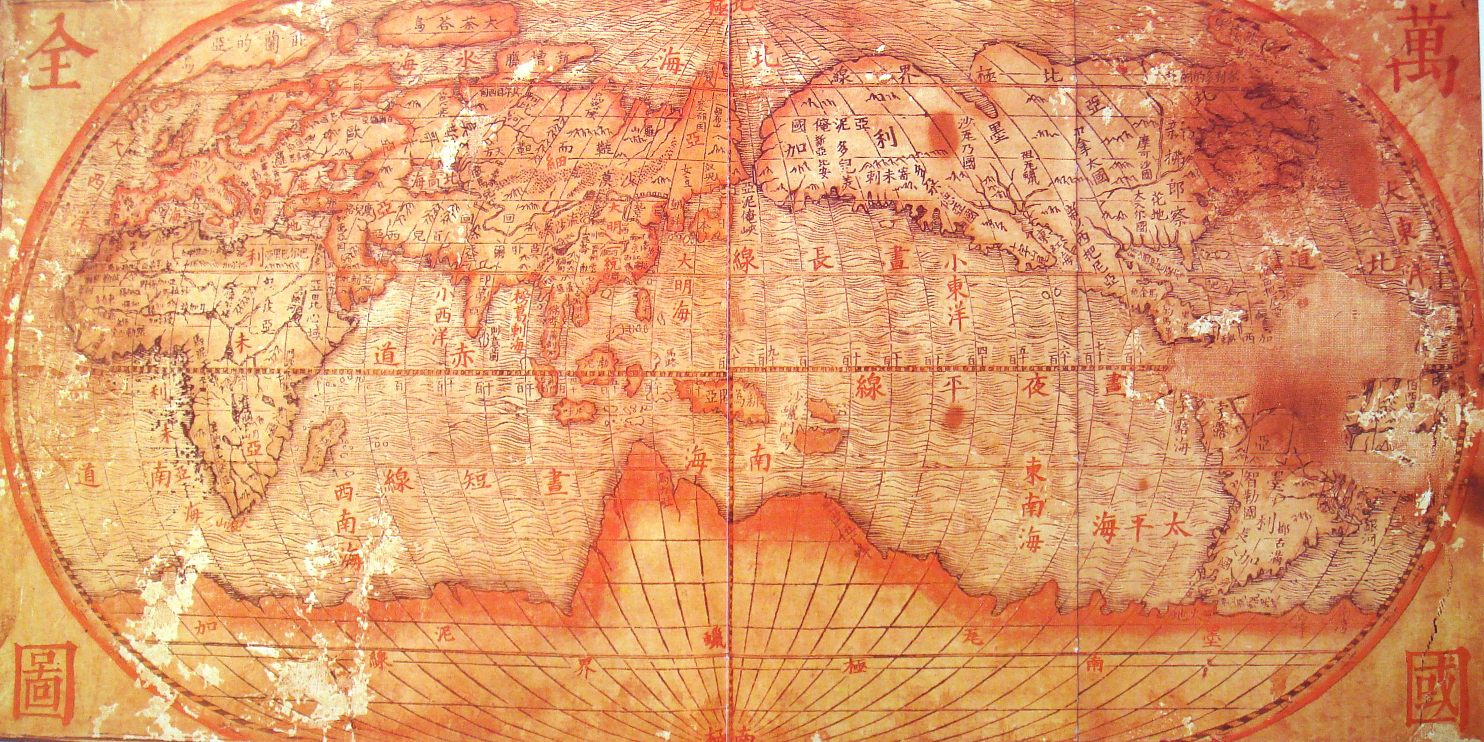 Chinese world map, drawn by the Jesuits (early 17th century). Reproduction in "Historic Maritime Maps" Donald Wigal